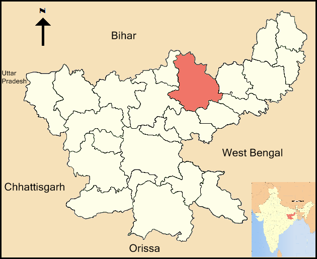 A locator map of Giridih district, Jharkhand state, India